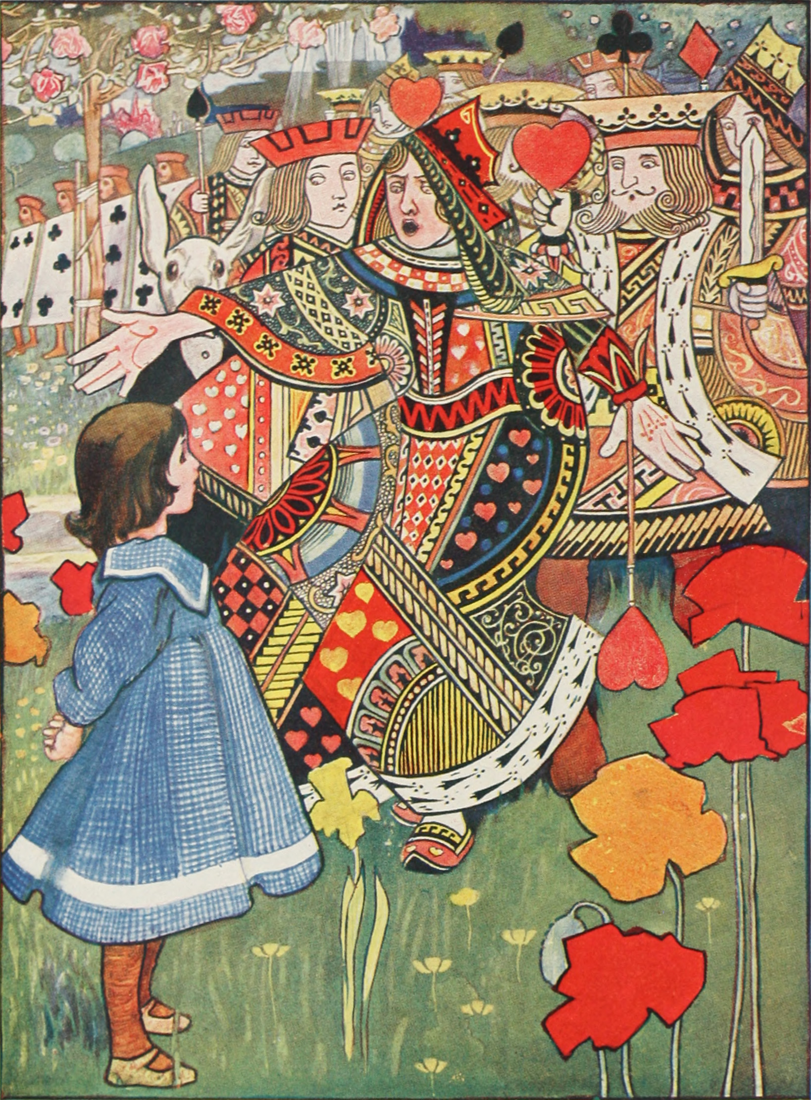 A coloured plate. Caption: “Off with her head!”